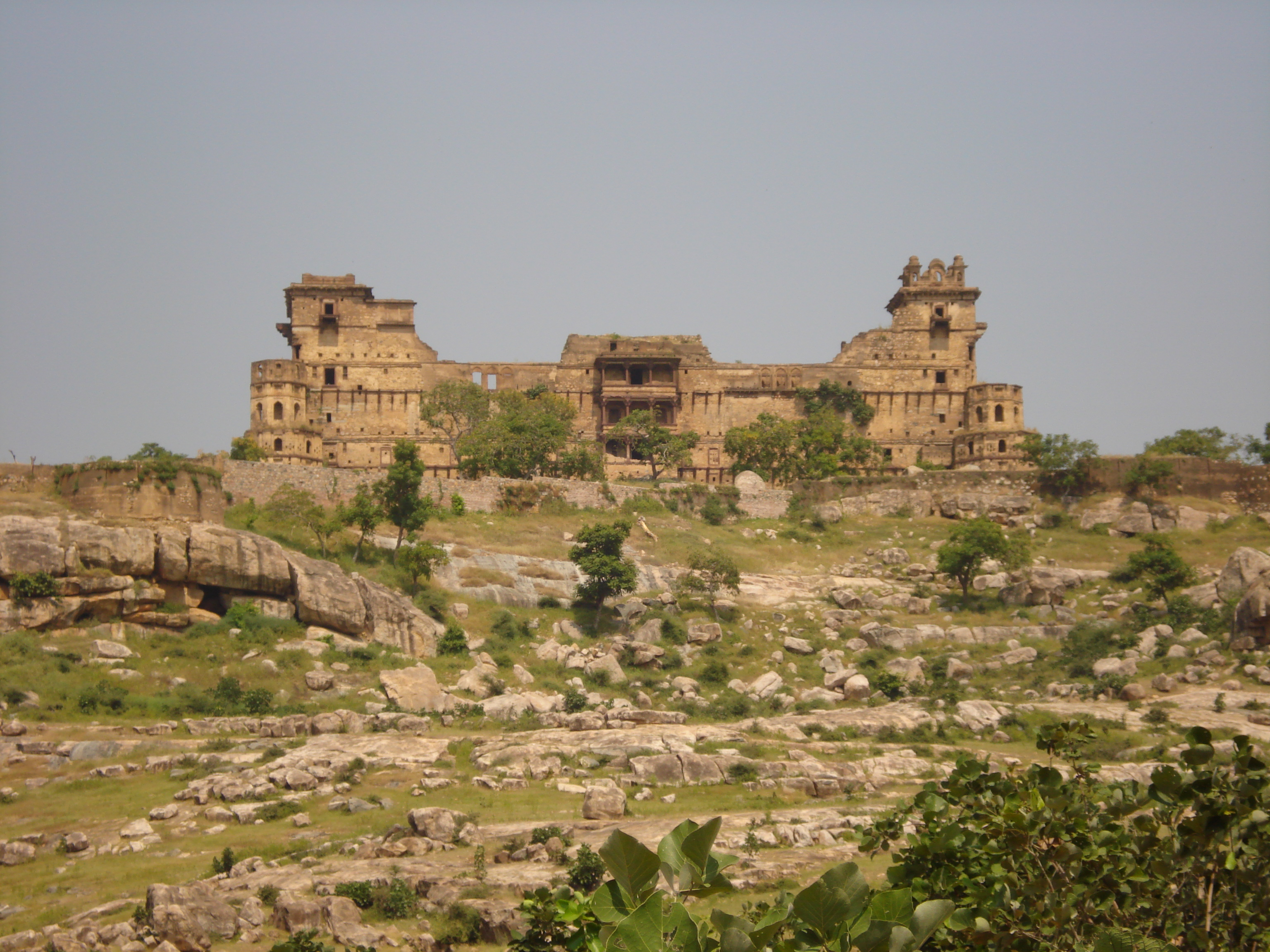 Garh Kundar Fort in Tikamgarh district of Madhya Pradesh, India.